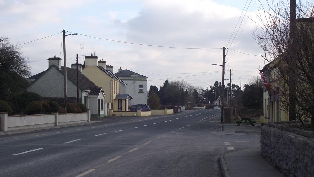 Easterly facing view of Garrafrauns village, along R328 road